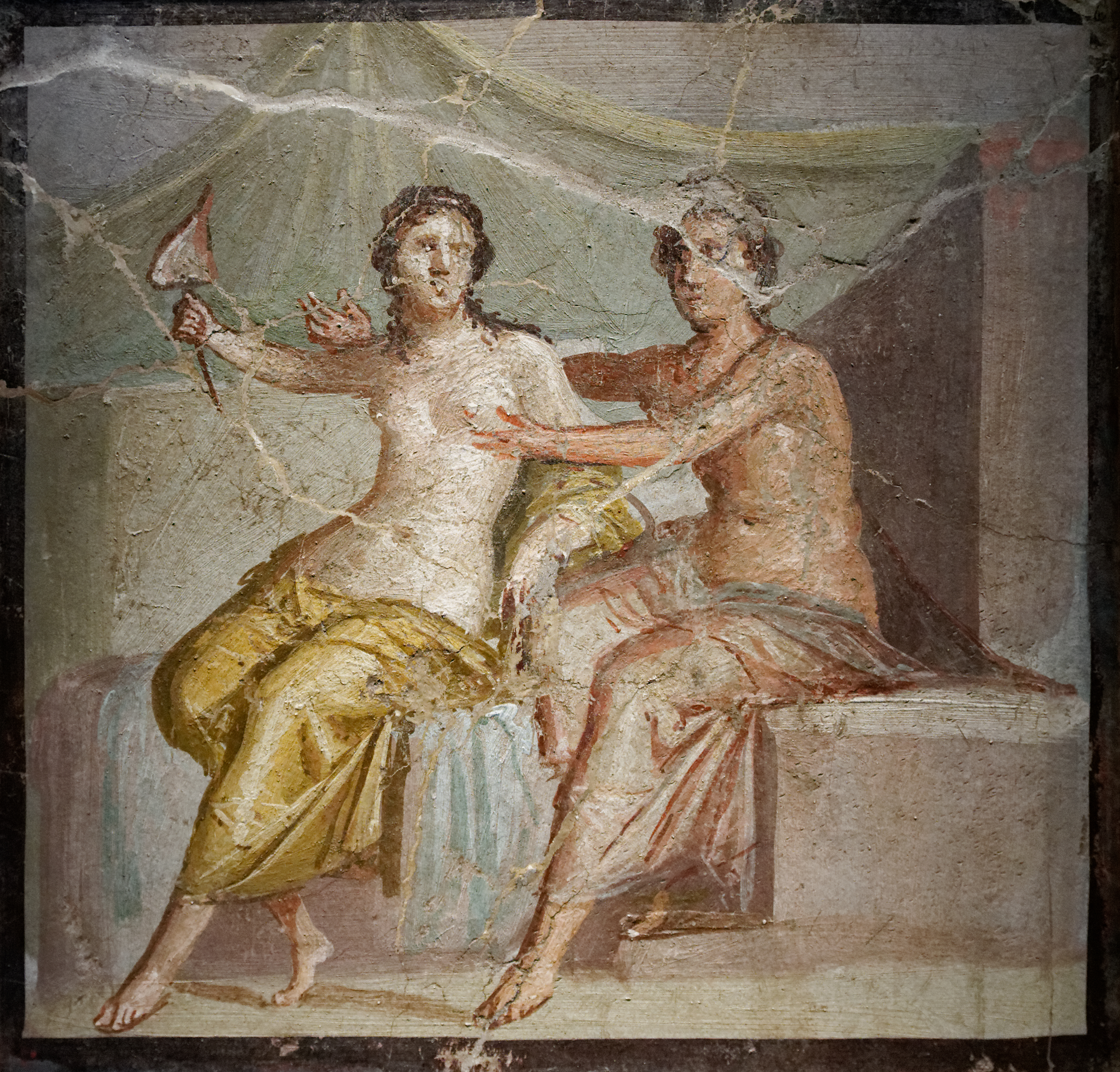 Mars and Venus.